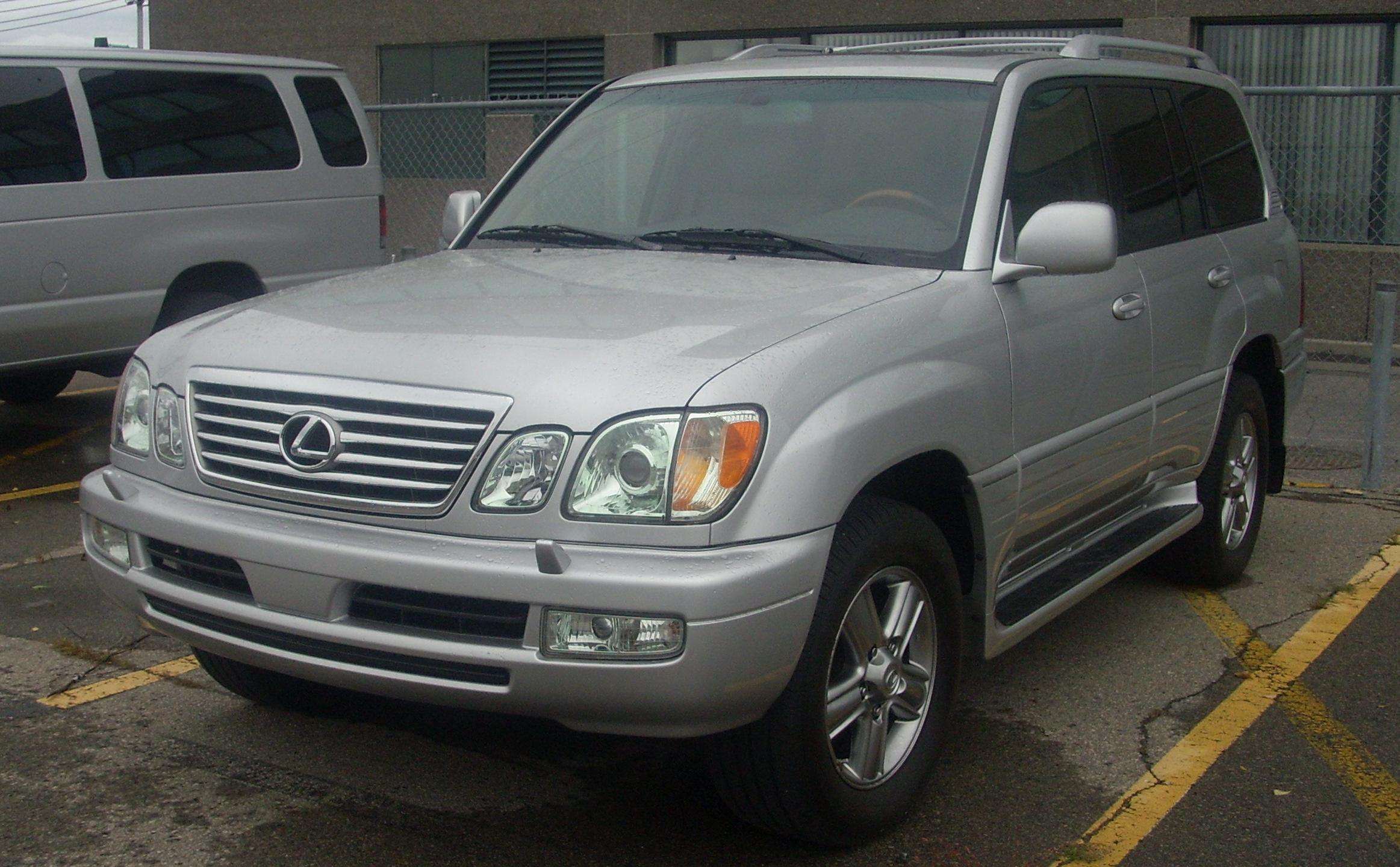 2006-2007 Lexus LX 470 photographed in Montreal, Quebec, Canada.